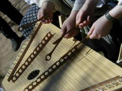 Photo of simultaneous dulcimer playing at the 2005 Medieval Faire in Norman, OK. Photographer is J. Fowler-Lindemulder